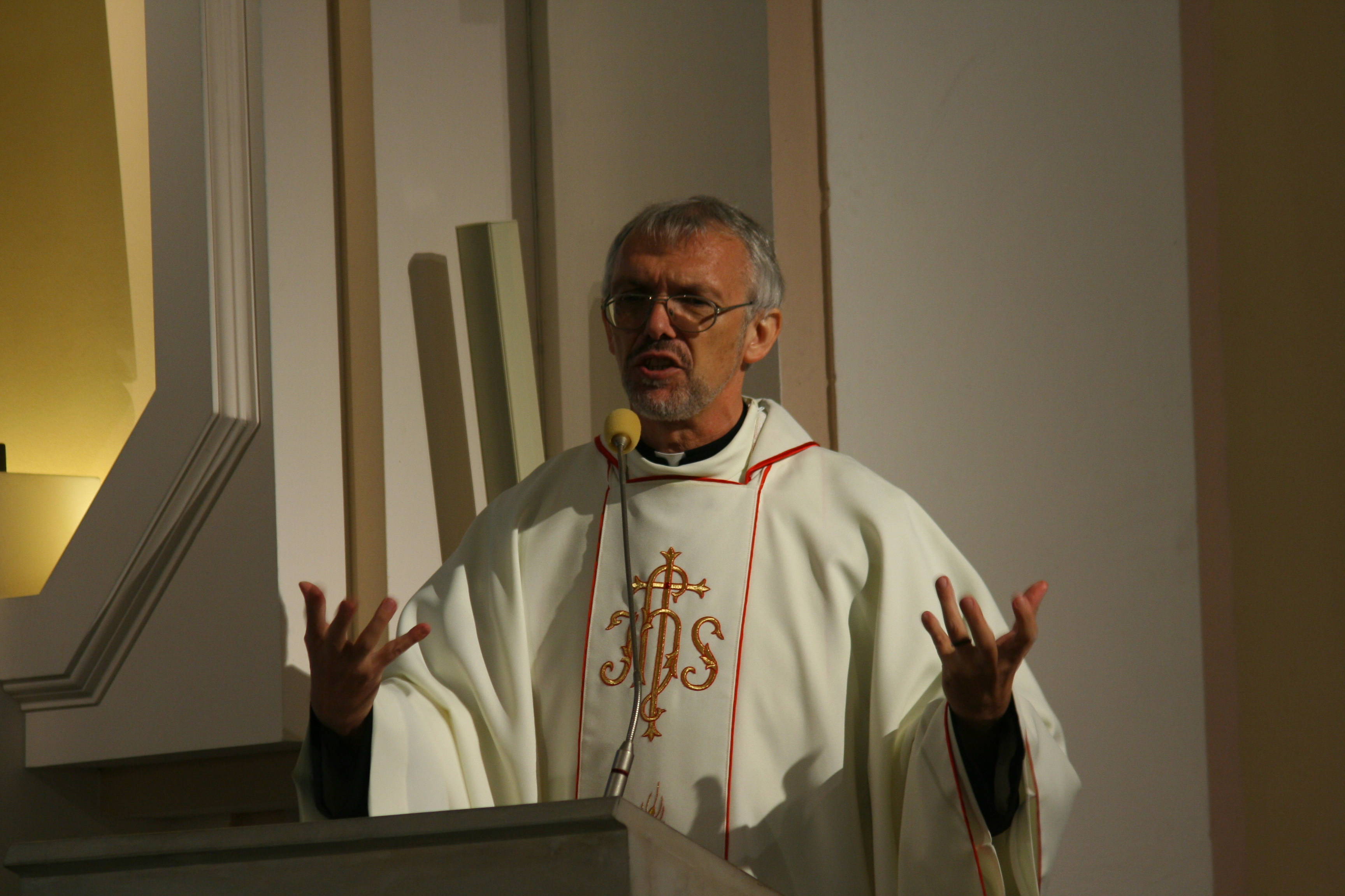 Father Friedrich Kretz, Pallottine.